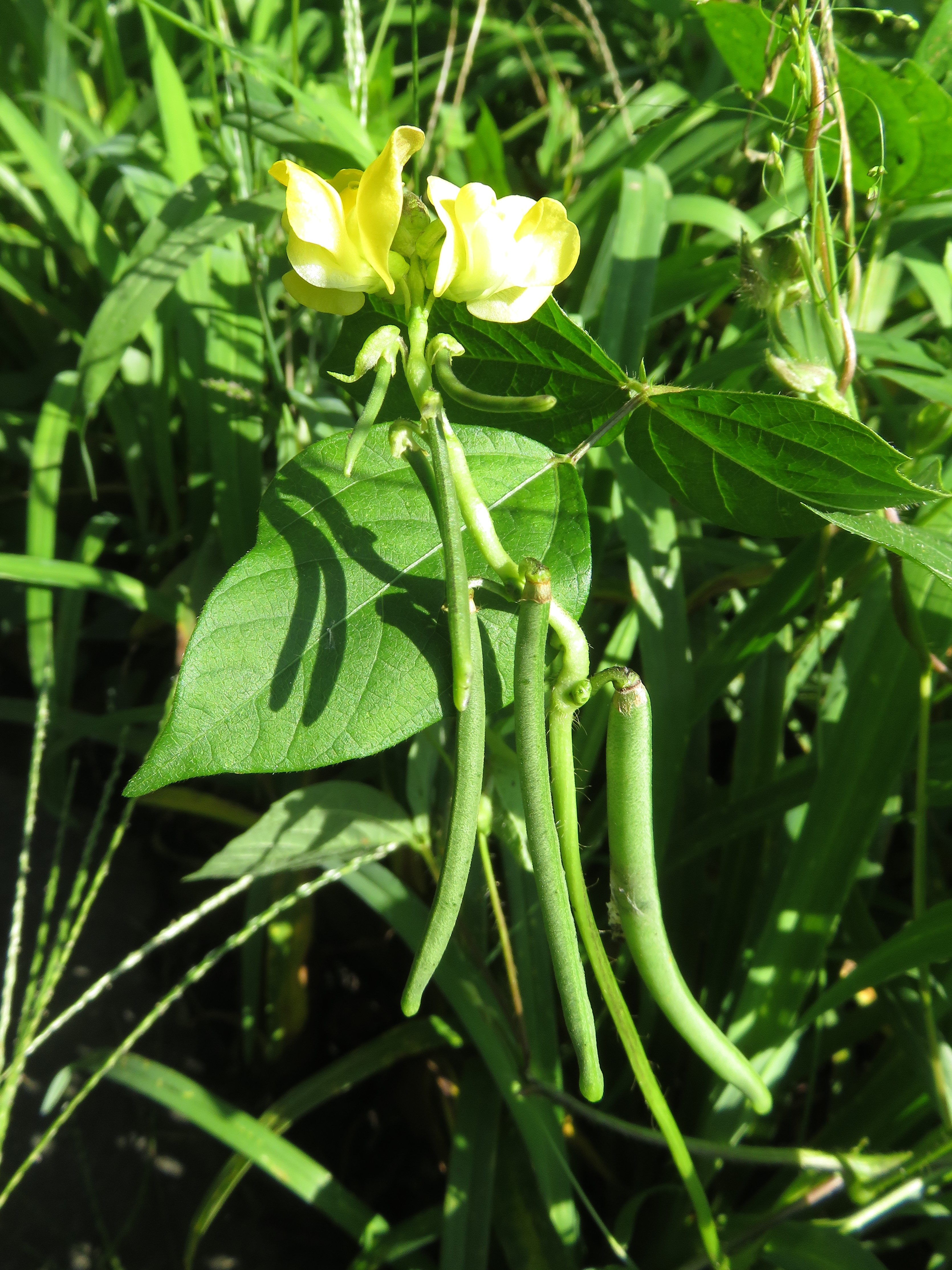 Vigna angularis var. nipponensis, Aizu area, Fukushima pref., Japan